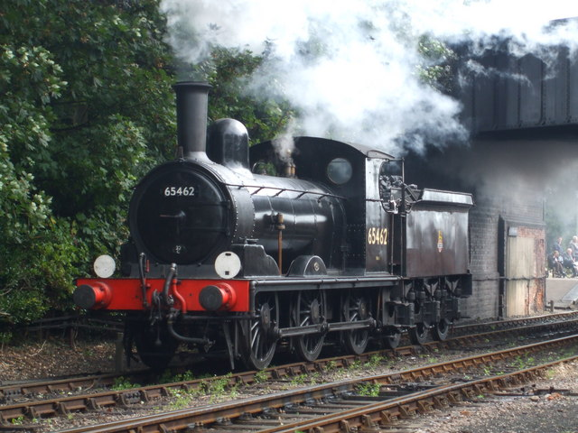 J15 65462 running around